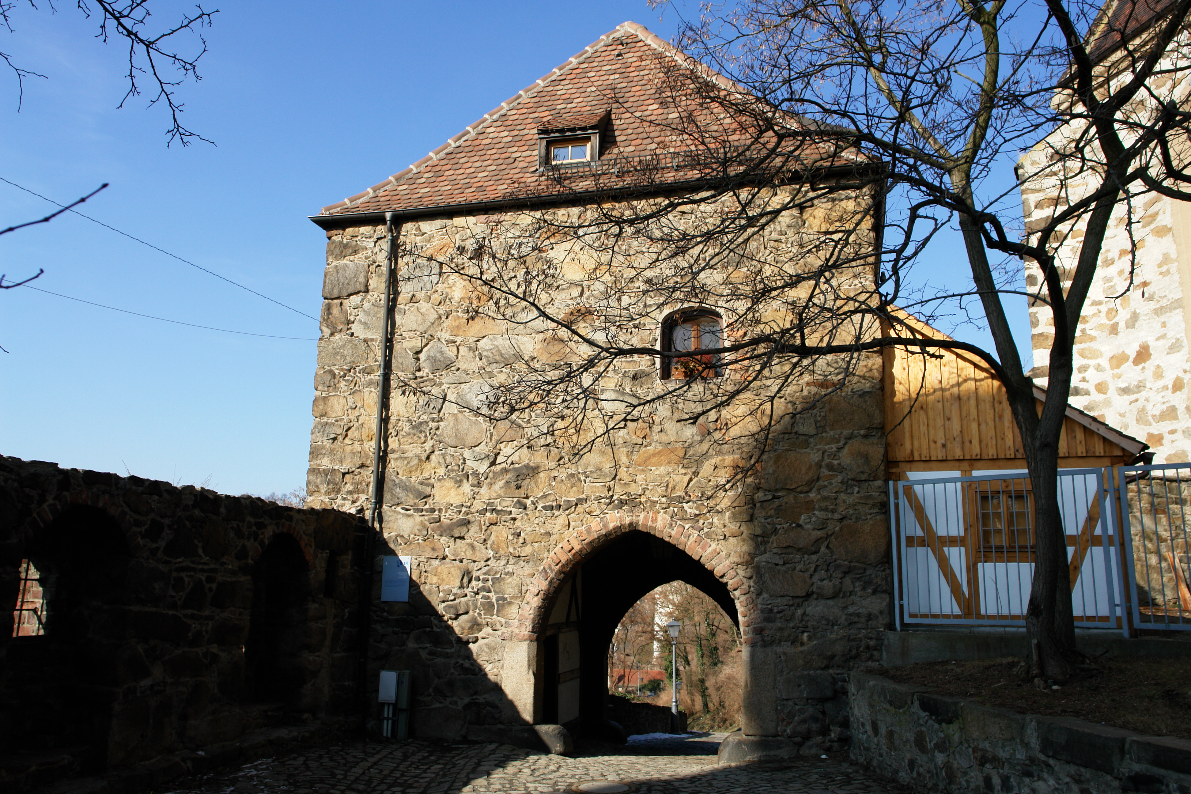 The Mill Gate in Bautzen, Germany.